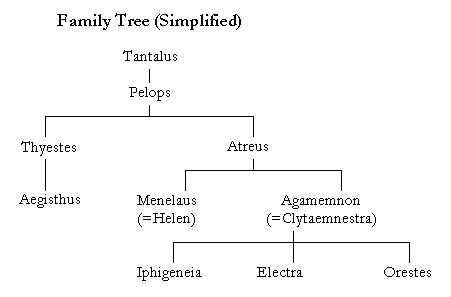 House of Atreus family tree